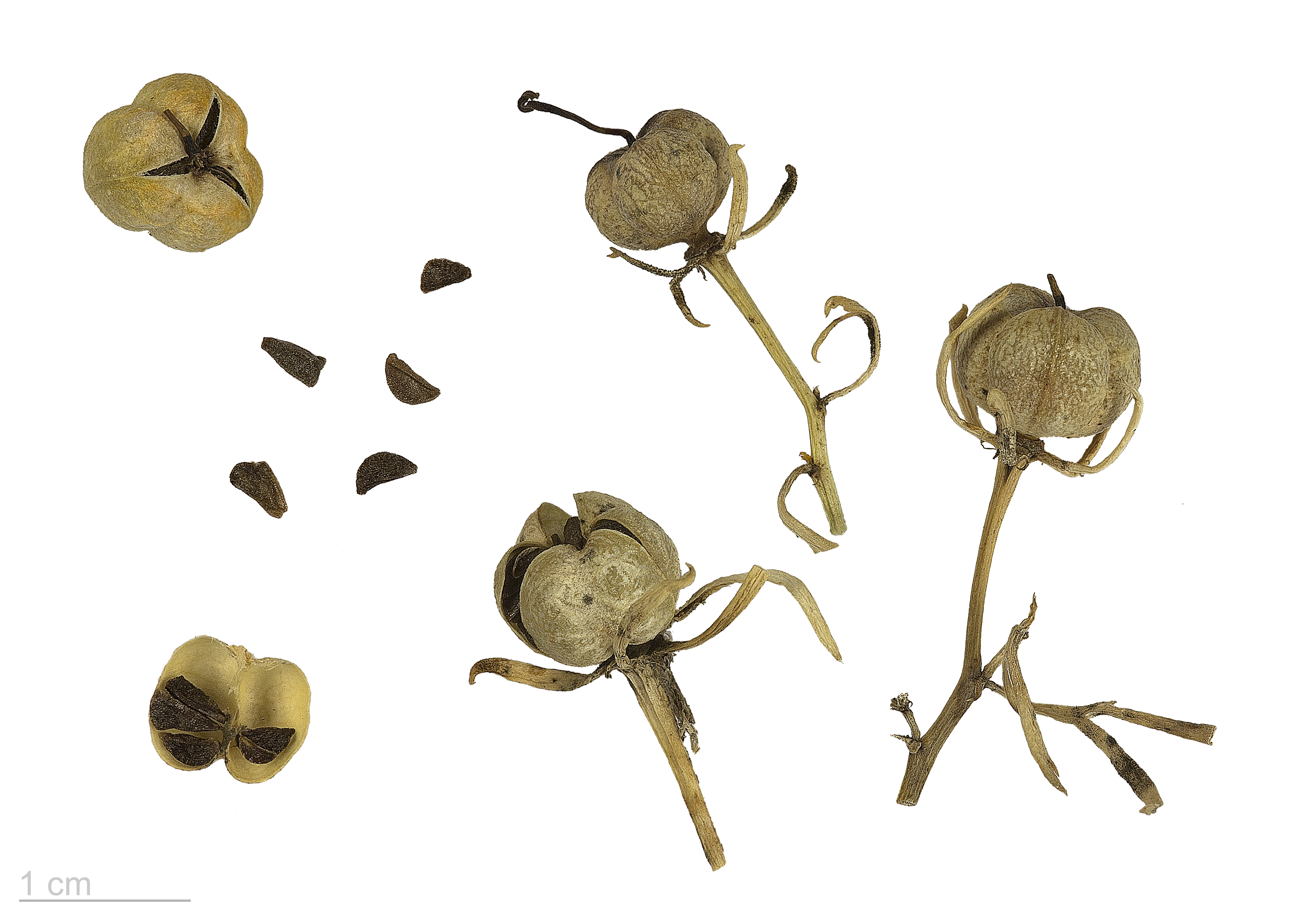 Peganum harmala, Esfand, seeds